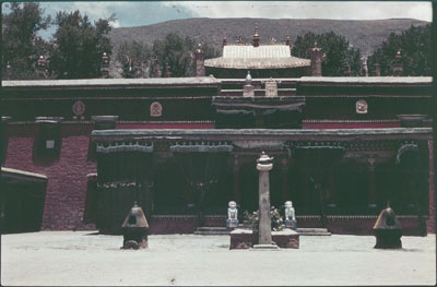 The main temple of Nechung monastery. In the foreground there is a small uninscribed pillar or doring (rdo ring) with insense burners (bsangs khang) either side of it. Two stone Snow Lions are behind it on the steps of the entrance to the temple.